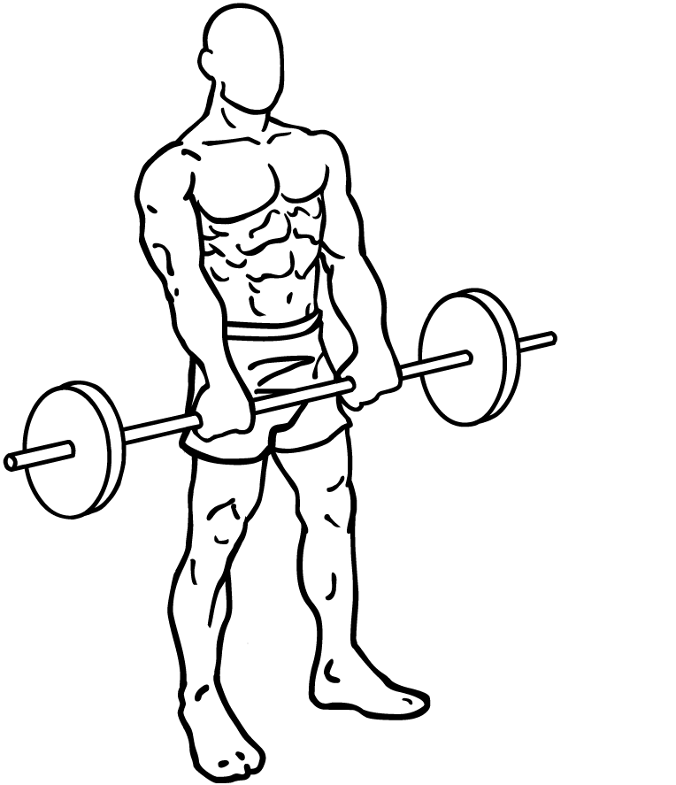 an exercise of shoulders